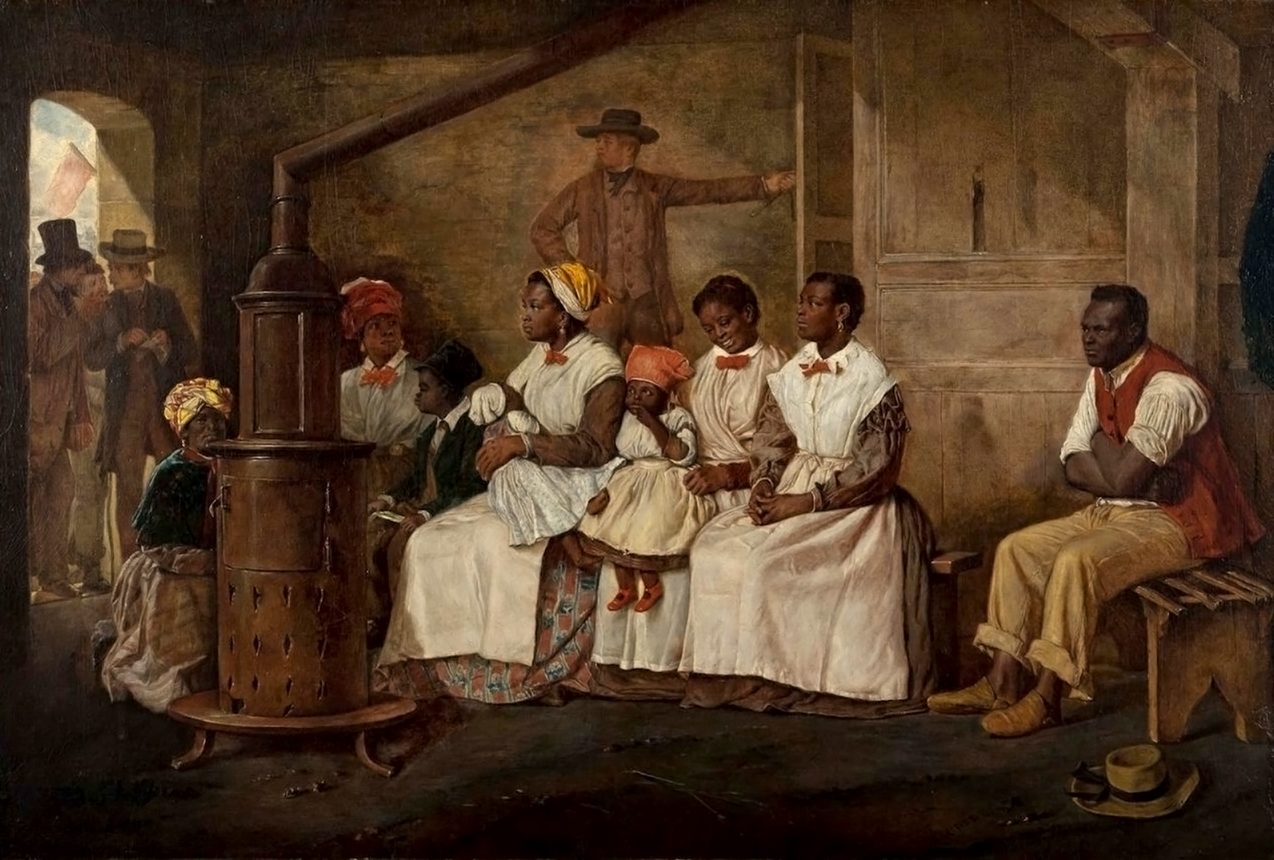 Slaves Waiting for Sale - Richmond, Virginia. Oil, 20¾ x 31½ inches. Painted upon the sketch of 1853